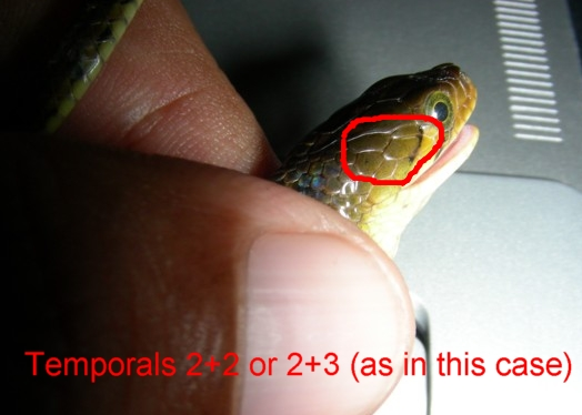 Identifying characters of Chequered Keelback Xenochrophis piscator Family Colubridae, Serpentes (Snakes) Char 5 - Temporals are 2+2 or 2+3. Photographed at Binnaguri, North Bengal, India on 23 Sep 06. Self-work. AshLin 13:19, 26 September 2006 (UTC)